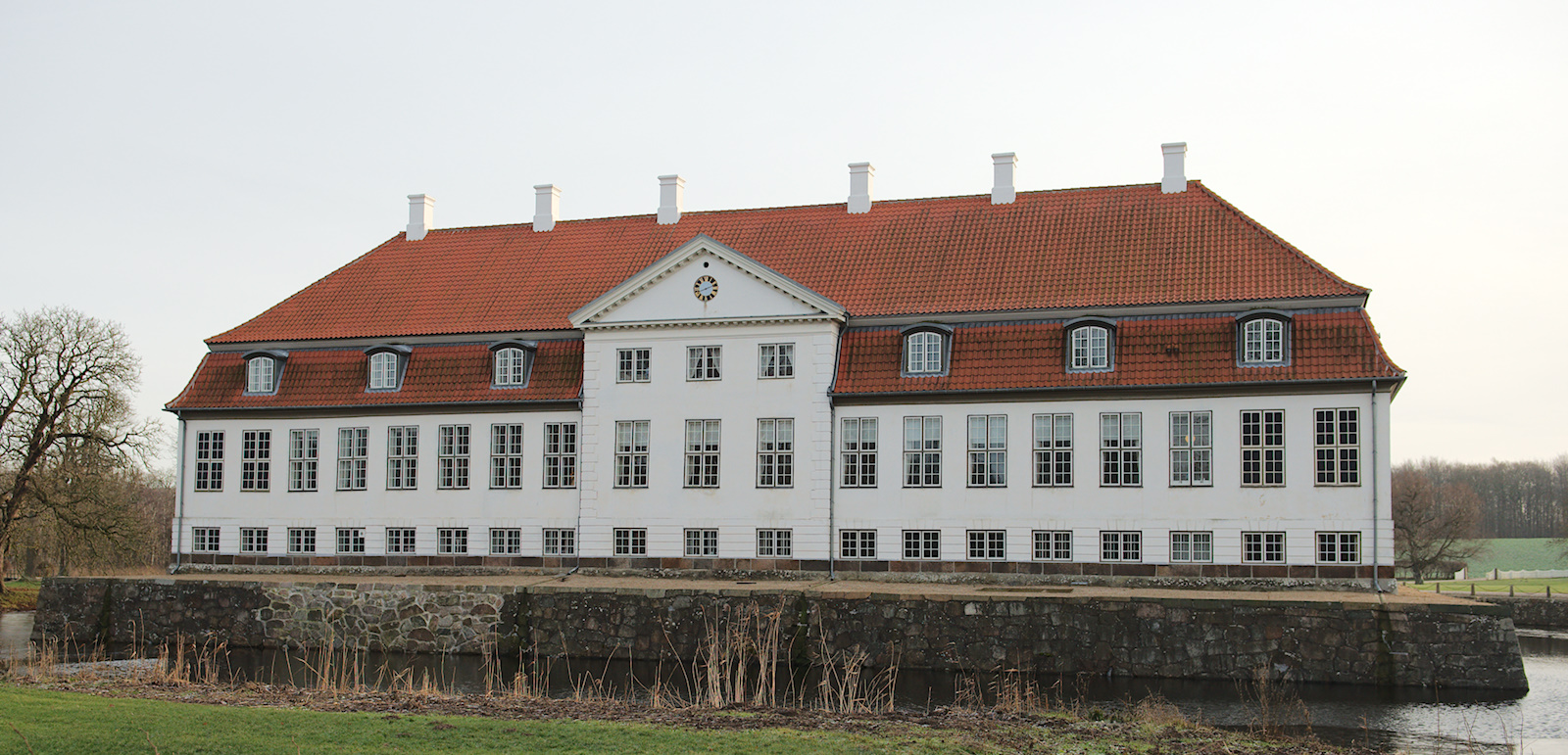 Hverringe farm (rear side)